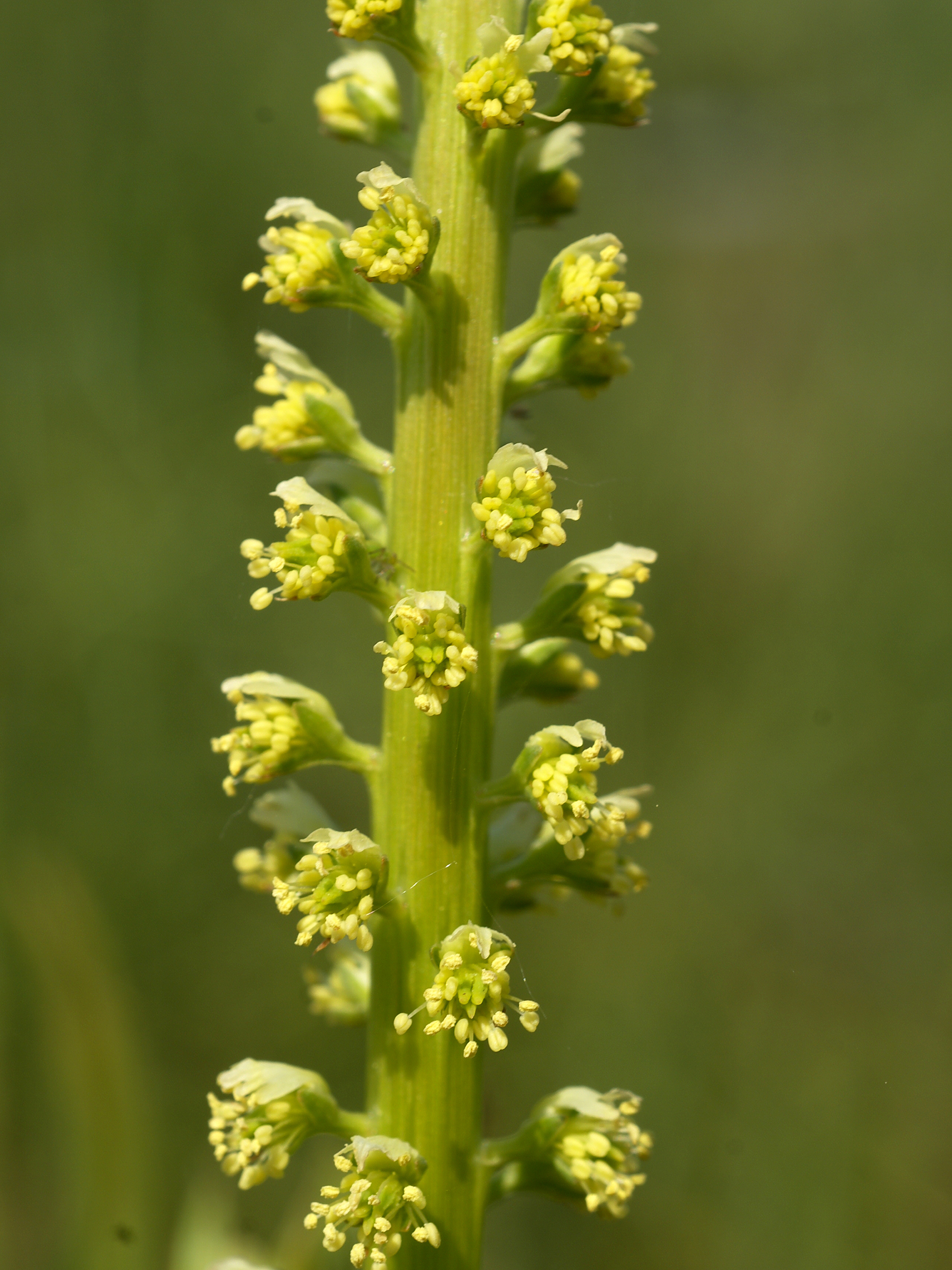 Weld flowers behind fish auction buildings at Oostende, Belgium